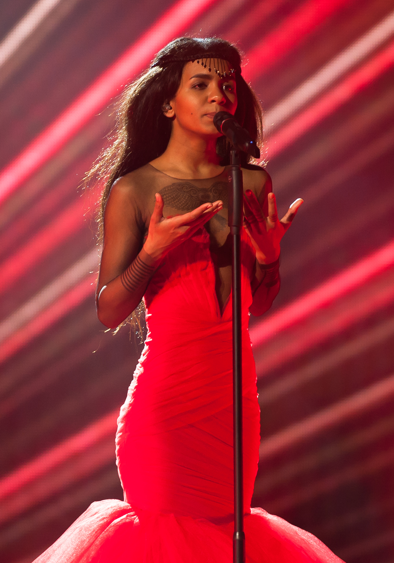 Eurovision Song Contest Vienna 2015: Aminata